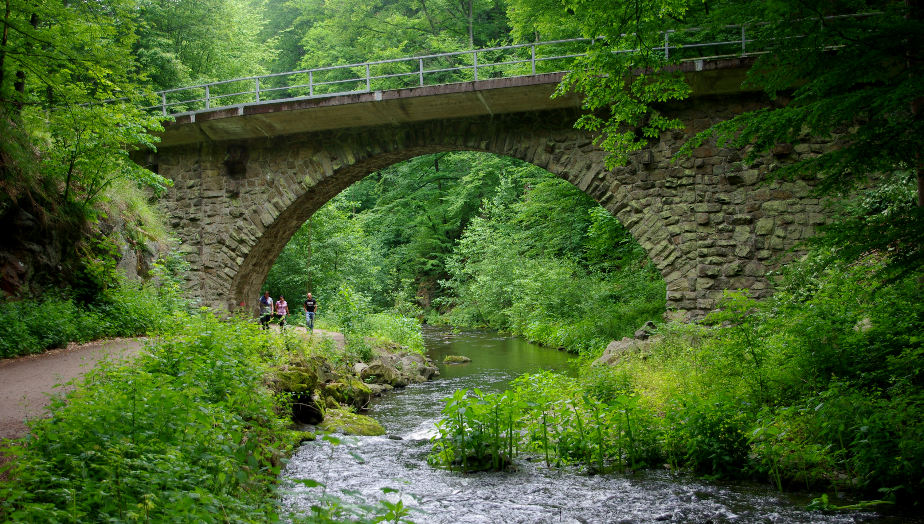 Brück in Rabenau